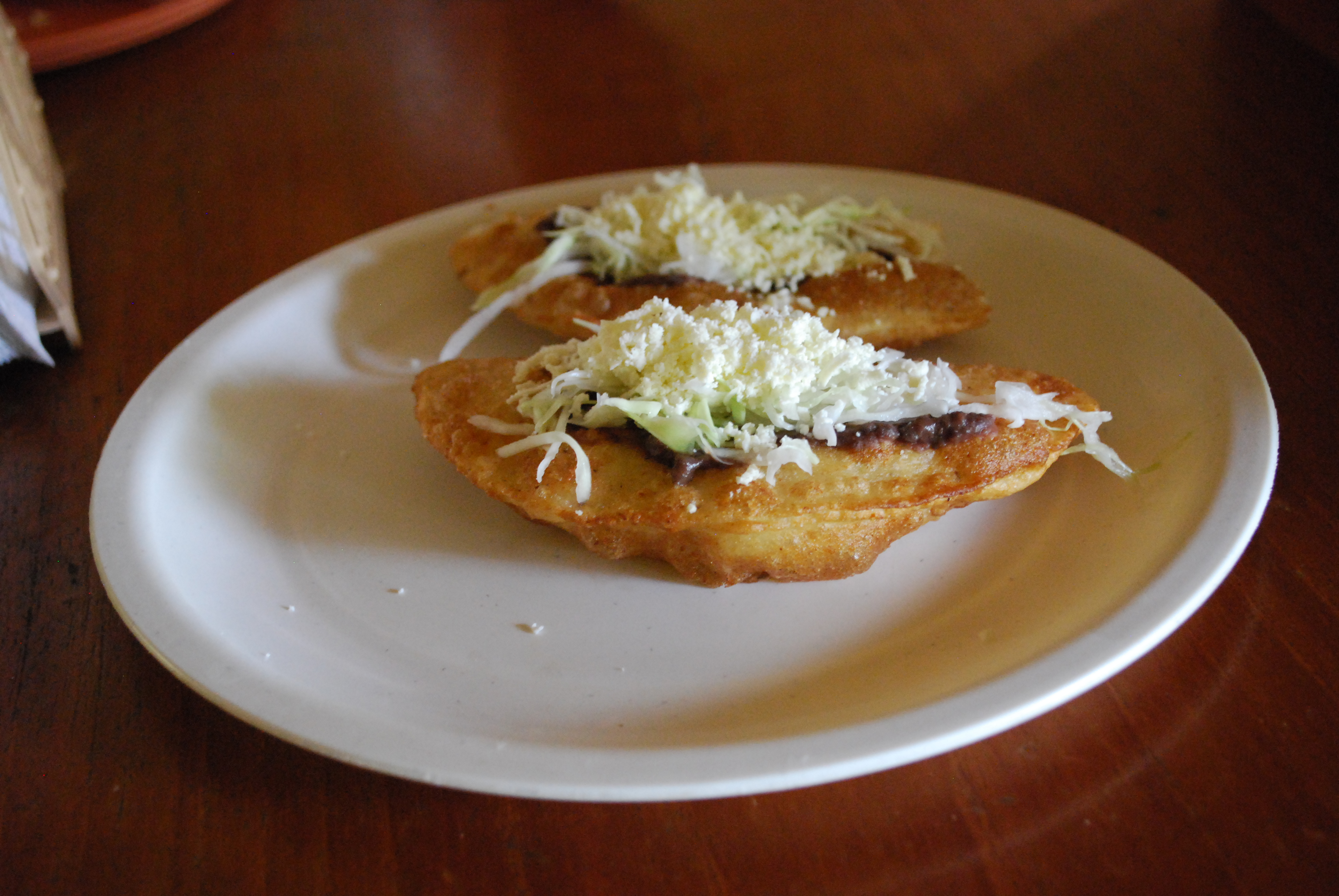 Fried empanadas with cheese, beans and lettuce on top at a food stand in Frontera Corozal, Chiapas, Mexico